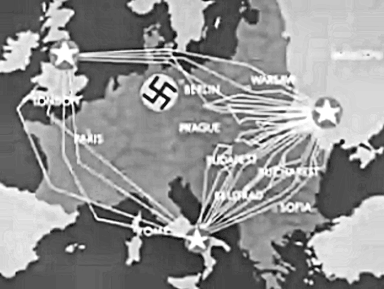 Frame shot of routes taken by USAAF strategic bombers during "Operation Frantic", the shuttle bombing missions between England, Italy and the Soviet Union, 1944.